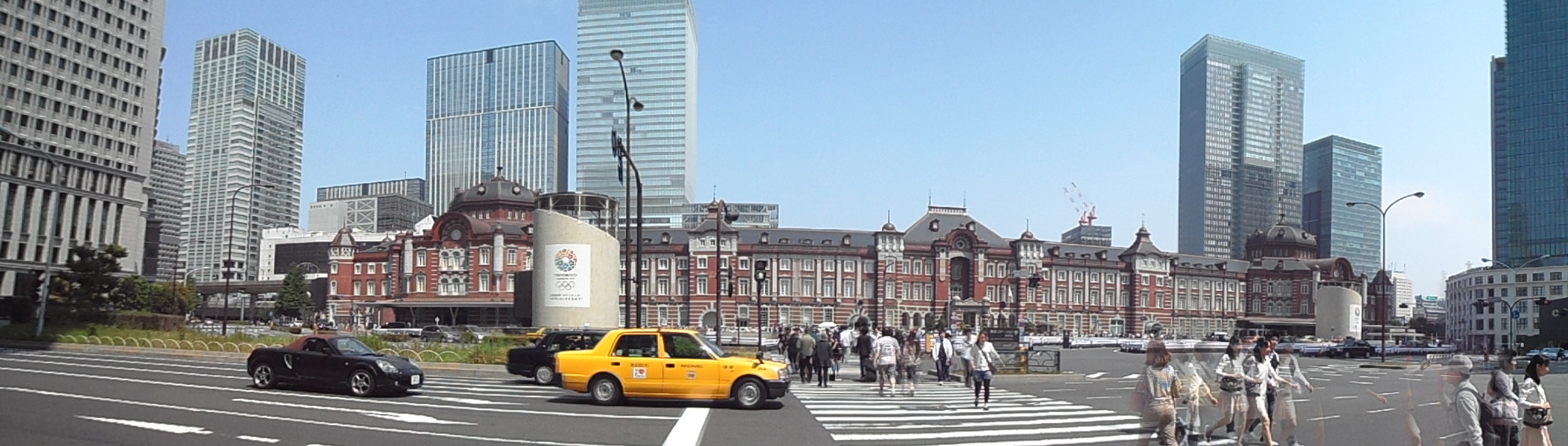 Panorama of brick Tokyo Station Marunouchi Building (built 1914) — and surroundings of the Tokyo Station.